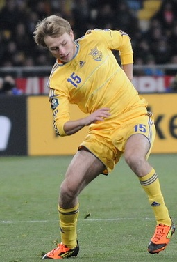 Roman Bezus